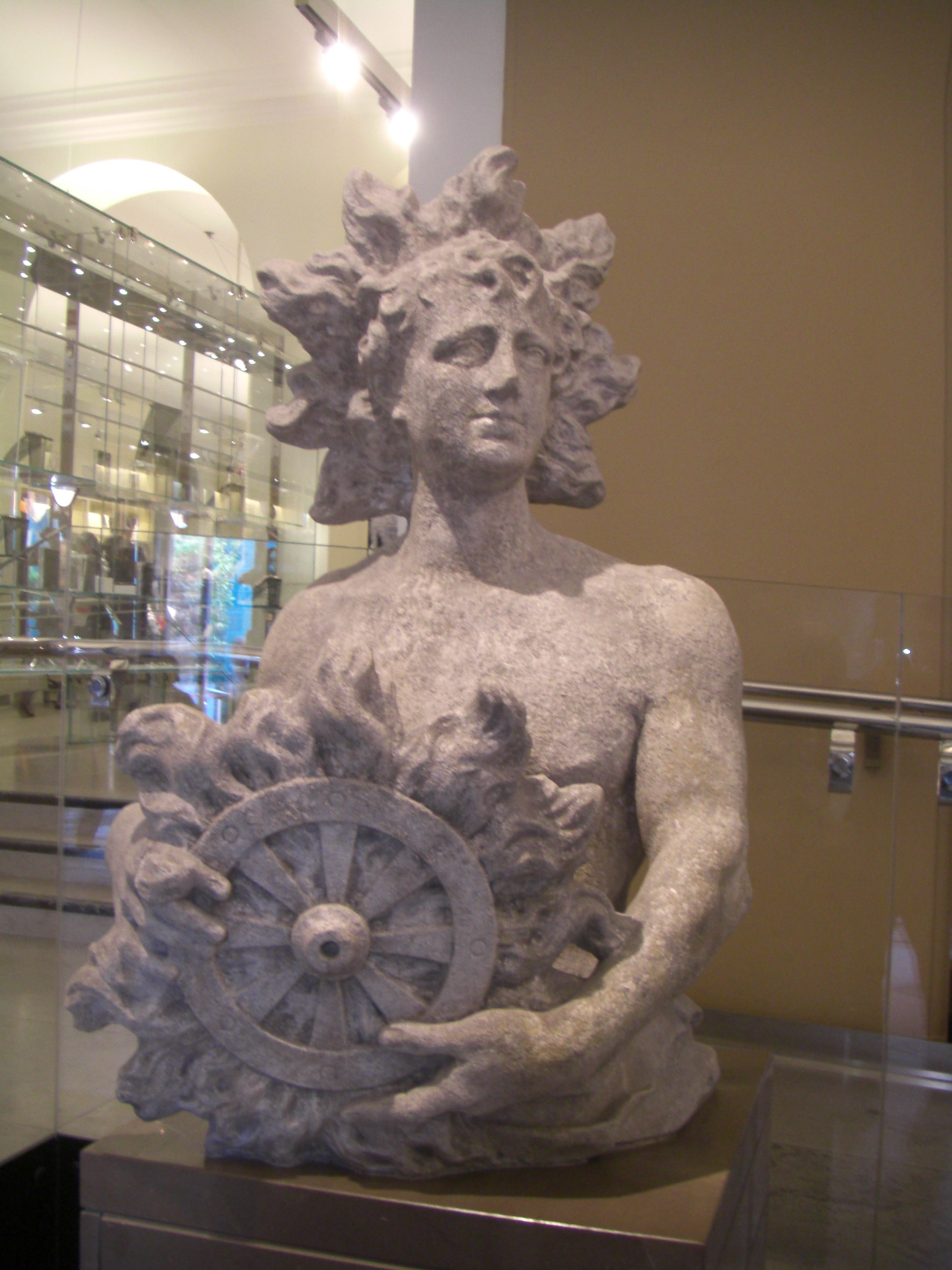 A statue of the god Sunna, at the V&A.